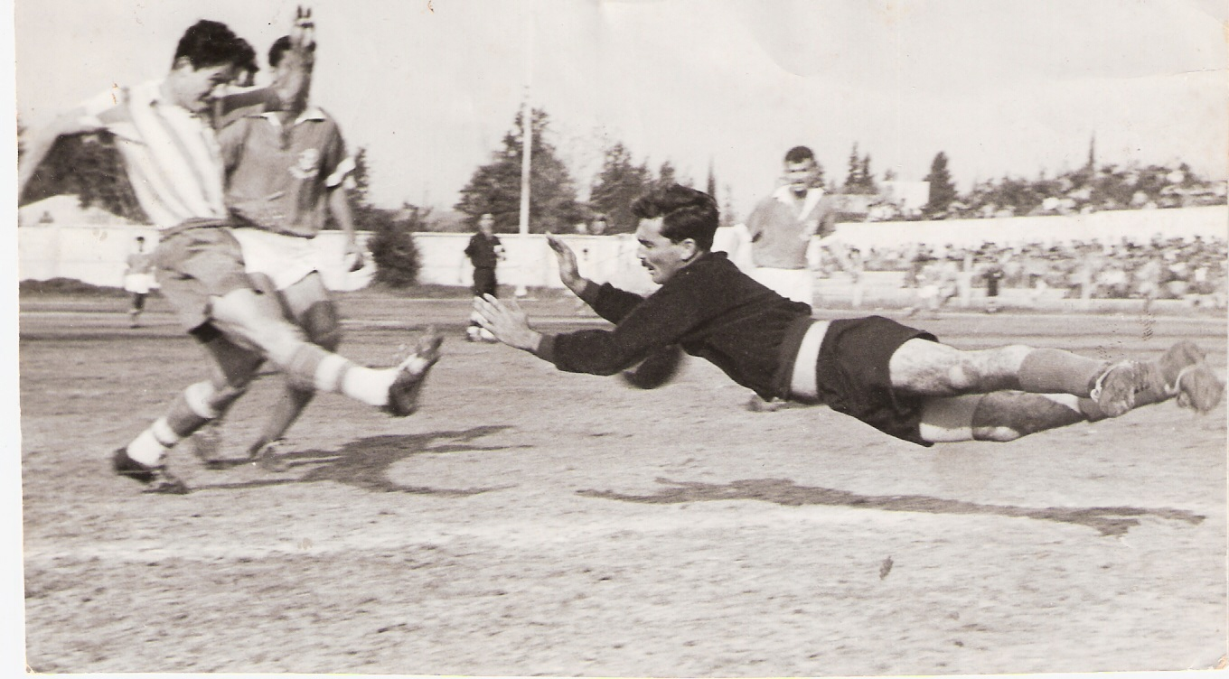 football game, late 50th